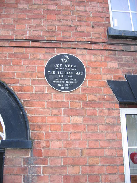 The Telstar Man. A close up of the 527023 showing the details of the plaque. Between the 26th and 28th October 2007 the first festival in the memory of Joe Meek was held in the town. The pioneering British record producer and songwriter died 40 years ago in tragic circumstances and is best known for his hit track 'Telstar' performed by The Tornados. This was the first record from a British group to reach number one in the US music charts.